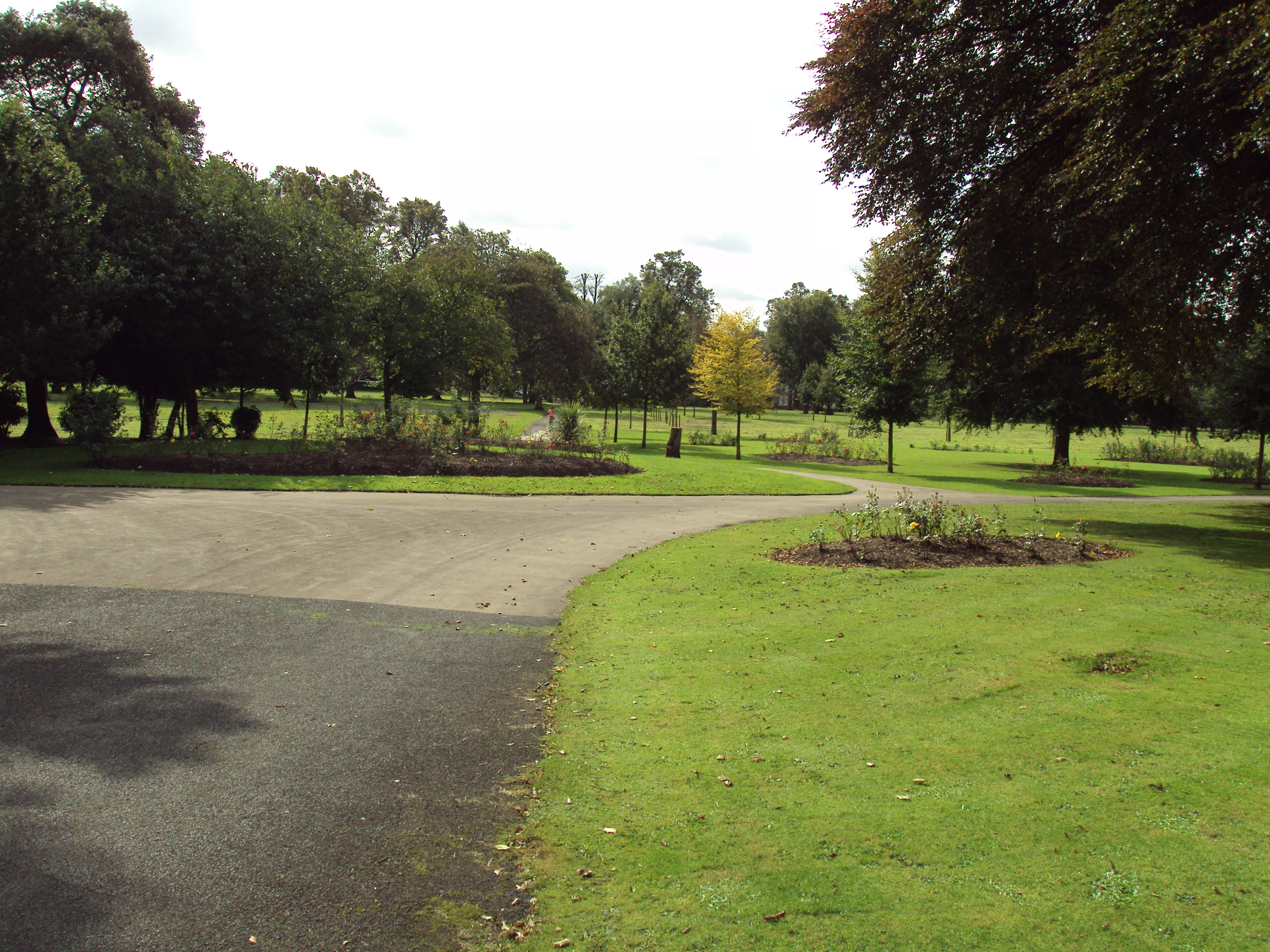 Calthorpe Park, Birmingham, England as seen from the corner of A441 Pershore Road and Speedwell Road.